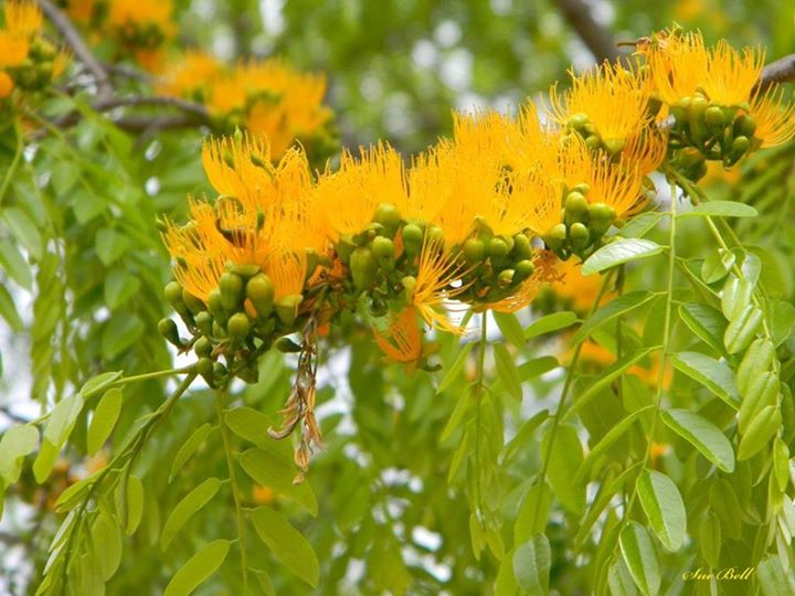 Flowers of Cordyla africana Lour. - Botanical Garden, Harare, Zimbabwe